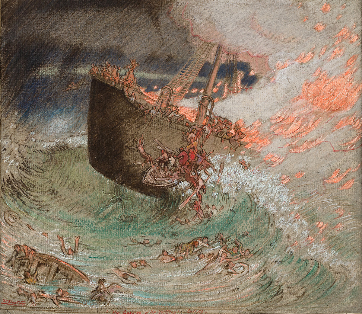 Gouache, or oil on card. Signed. Depicts the sinking of the SS Volturno on 9 October 1913. 13x15 inches. Offered for sale by Abbott & Holder in June 2019.